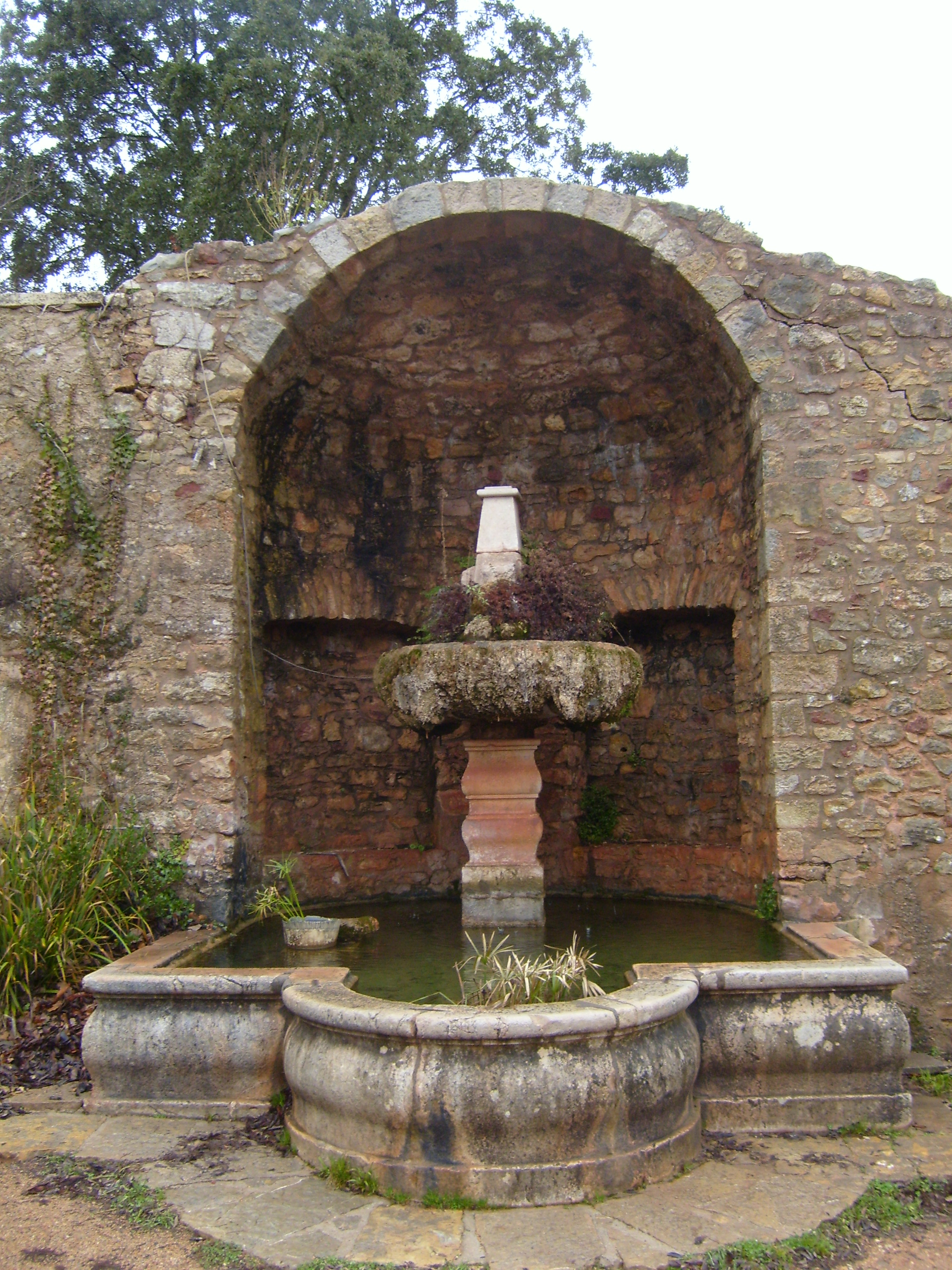 The 18th century fountain, the only decorative feature of the Abbey, built when the order's rules had been relaxed